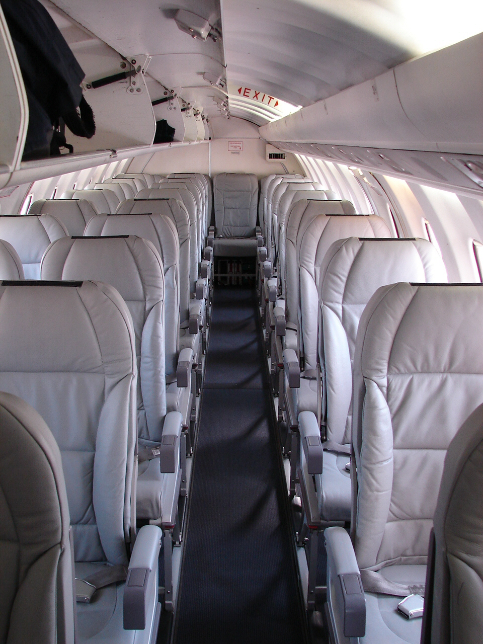 A look at the new interior onboard the Saab 340 operated by Mesaba Airlines.